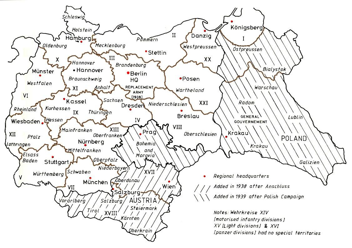 map of military districts of Germany during Second World War